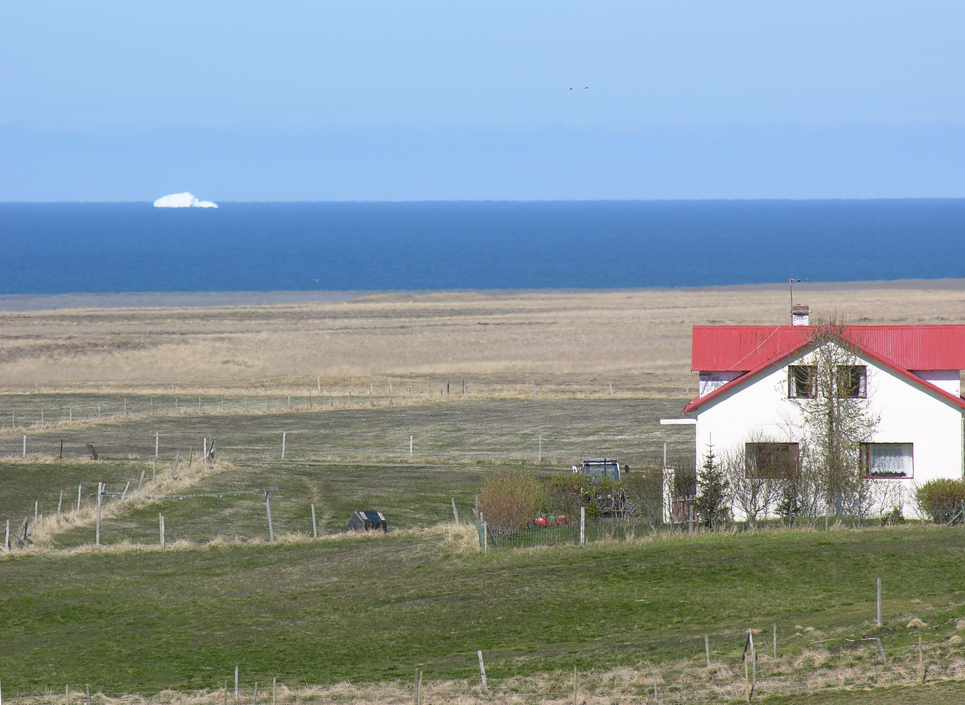 Iceland, views along road Road 1 in Iceland (Hringvegur). Picture is geocoded manually; if someone can contribute to the accuracy, please do so.